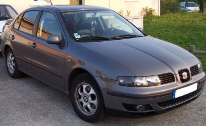 Seat toledo 2